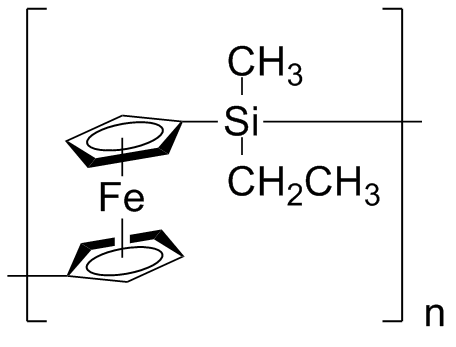 Organometallic HRIP